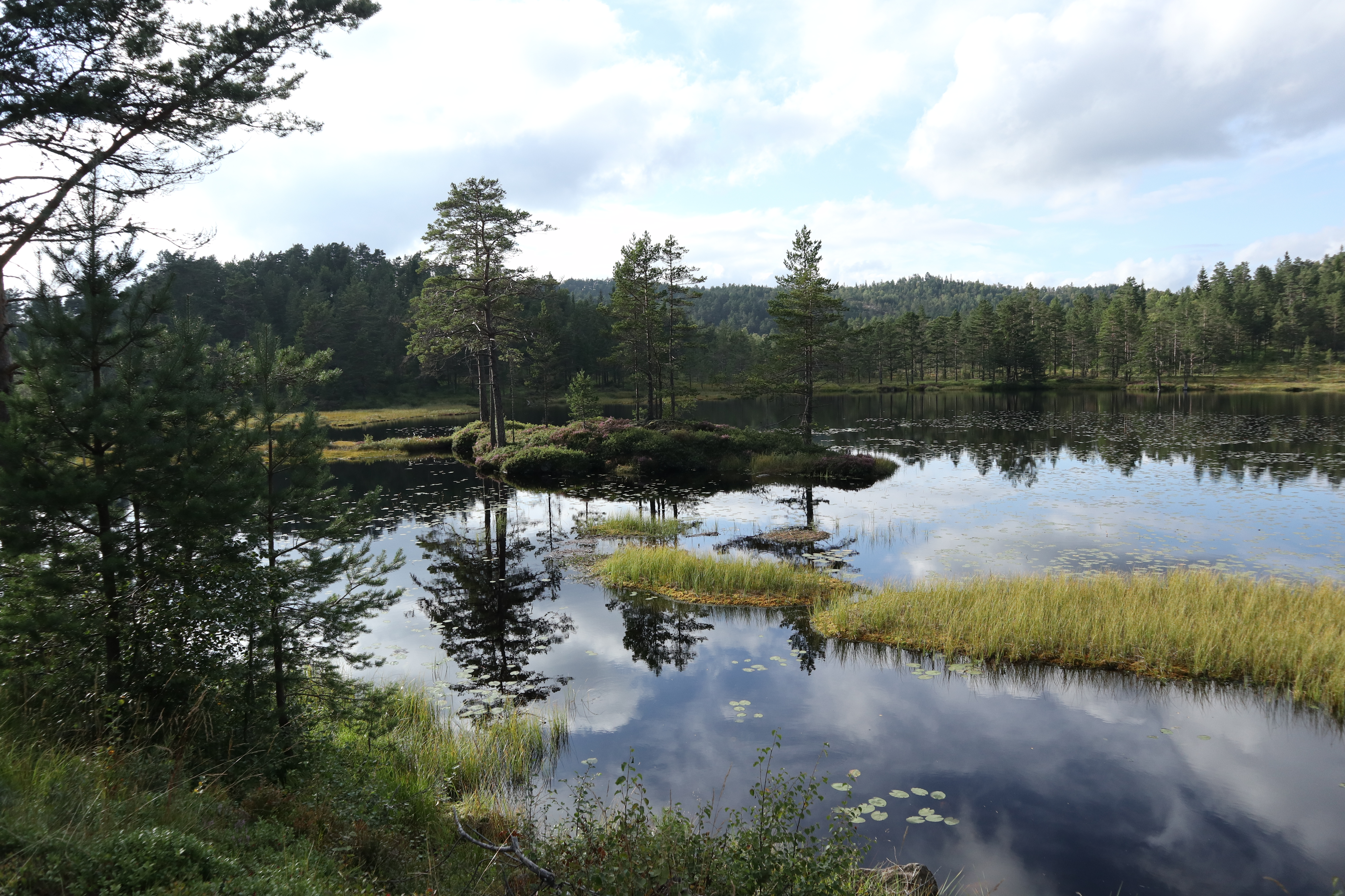 Typical landscape in county Aust-Agder in Norway. Litjørn eller Litjern ved gården Li.